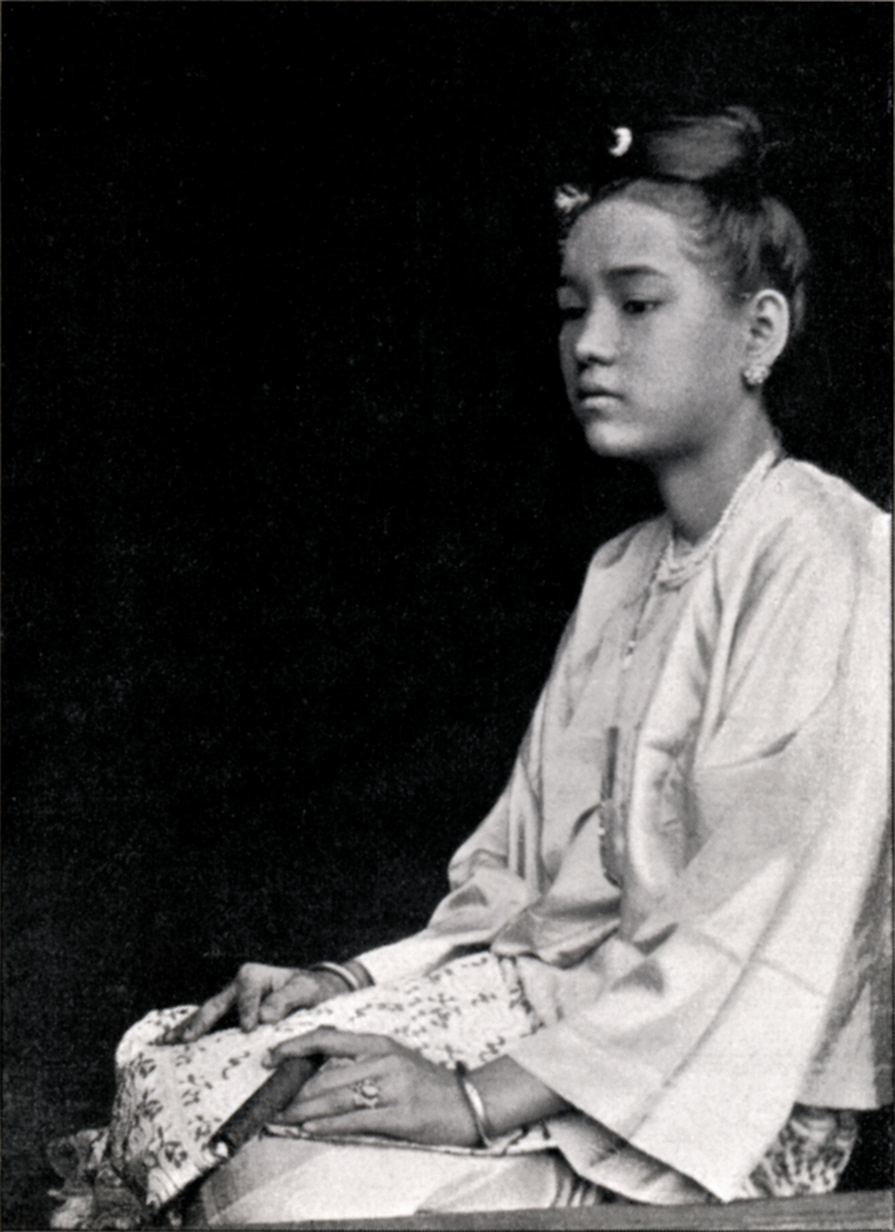 Burmese lady in Chinese costume.